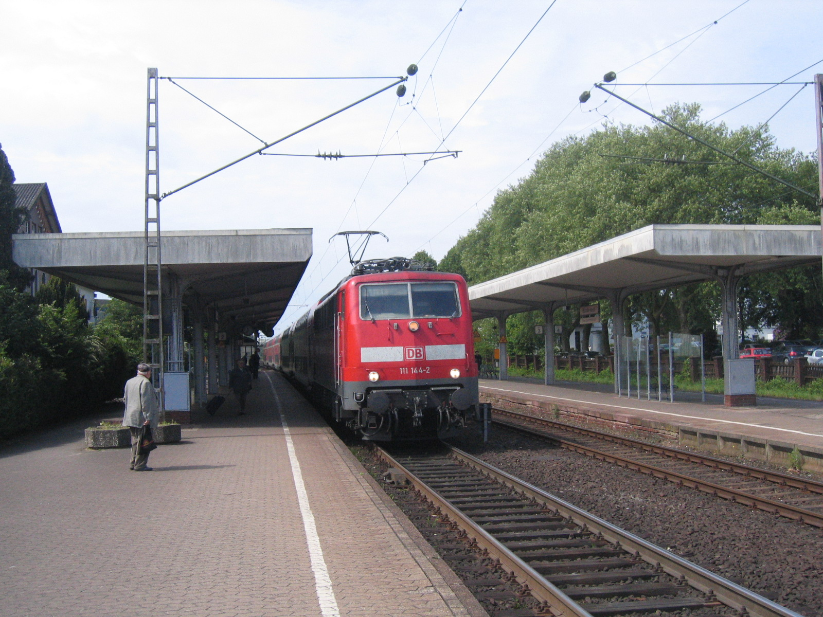 Bünde train station in Bünde, District of Herford, North Rhine-Westphalia, Germany.